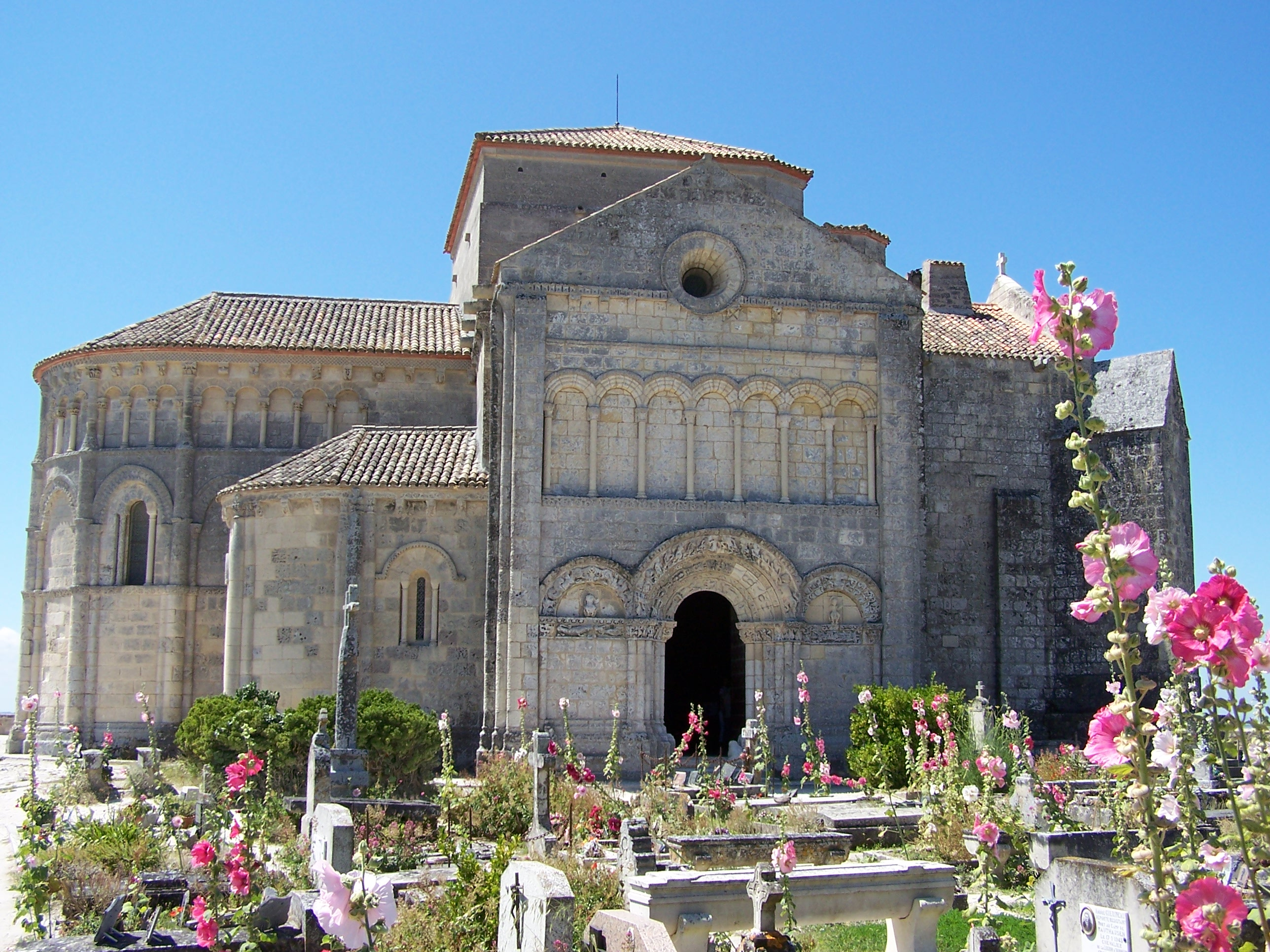 Church of Talmont-sur-Gironde (Charente-Maritime, France)